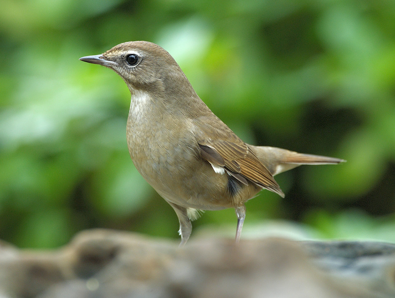 Siberian Rubythroat, Luscinia calliope - female Bân-lâm-gú: 母的紅胿仔。 Bó-ê âng-kui-á.